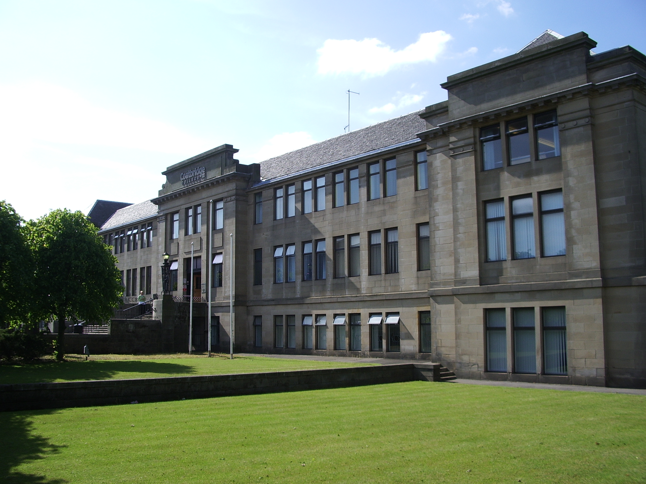 Coatbridge College, Coatbridge, looking west.